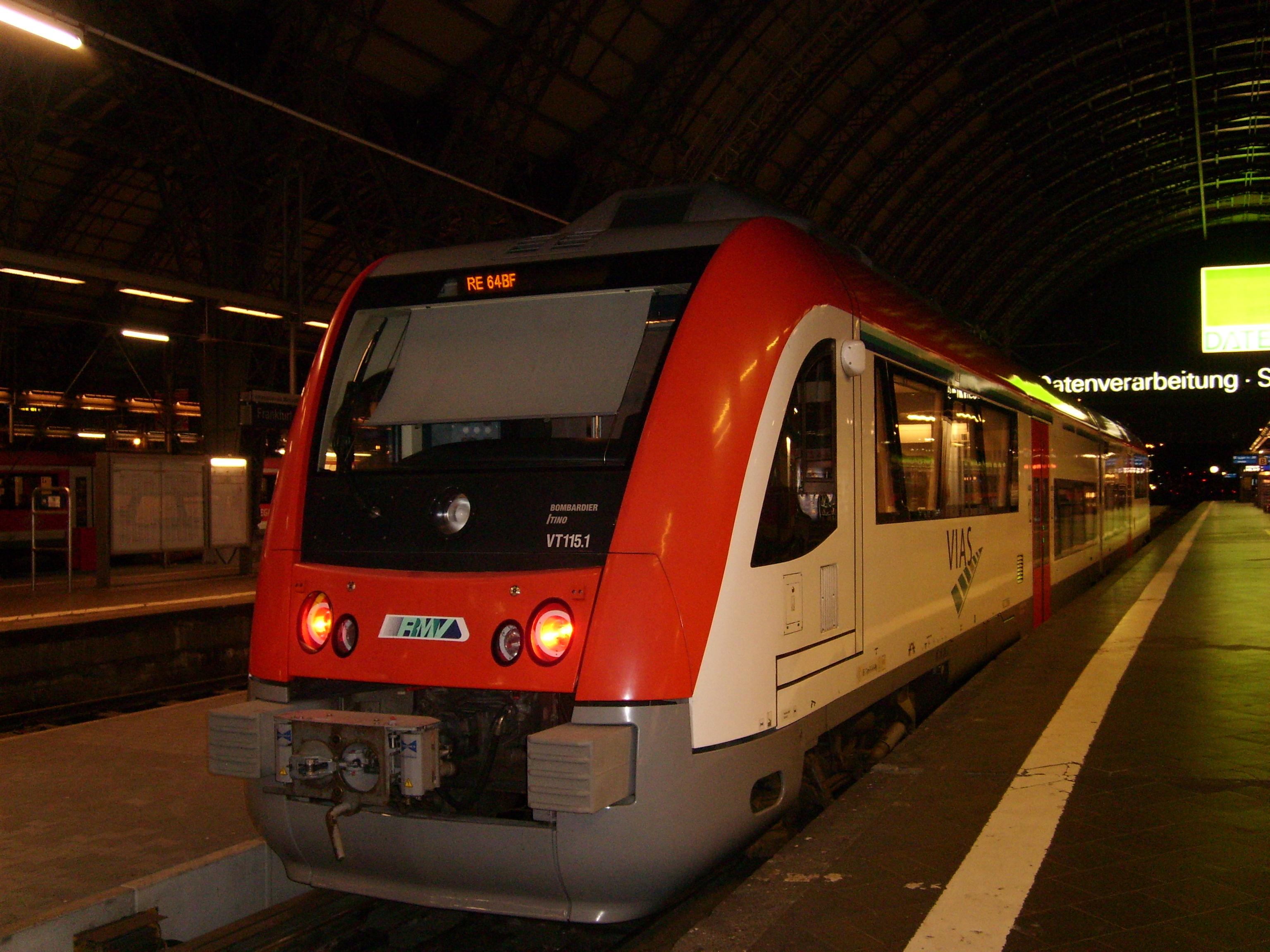 ITINO of VIAS as RE 64 (Ffm - Groß-Umstadt) in Frankfurt, Main Station